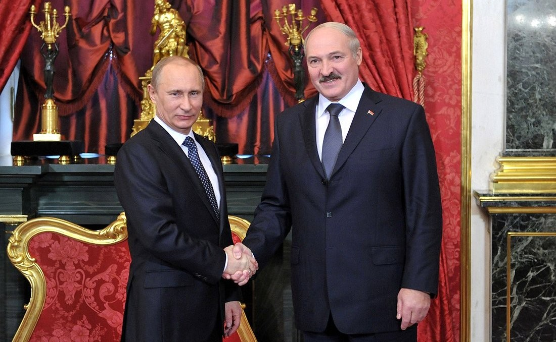 CSTO Collective Security Council meeting in the Kremlin, Moscow 2012-12-19.